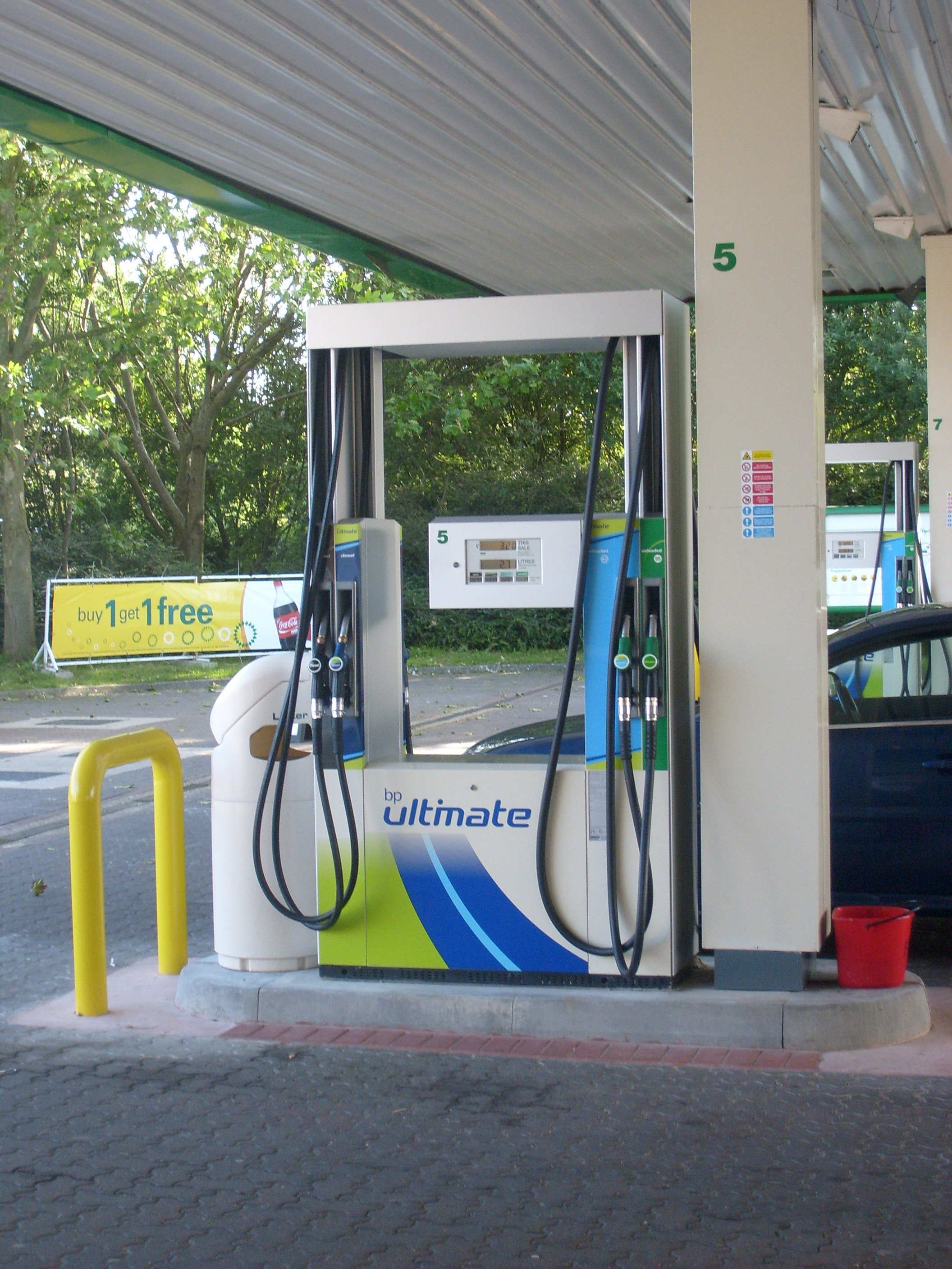 A photo of BPs latest pump design. The design has reverted to one of the earliest design which used to extend from high above. However these modern pumps connot be extended.